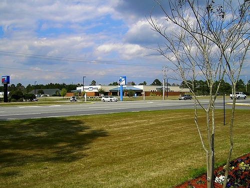 A photo in the photo gallery of Carolina Forest, taken by me. This photo may reappear under Flickr under different licensing terms, but is released into the public domain under Wikipedia and its subsidiary projects.